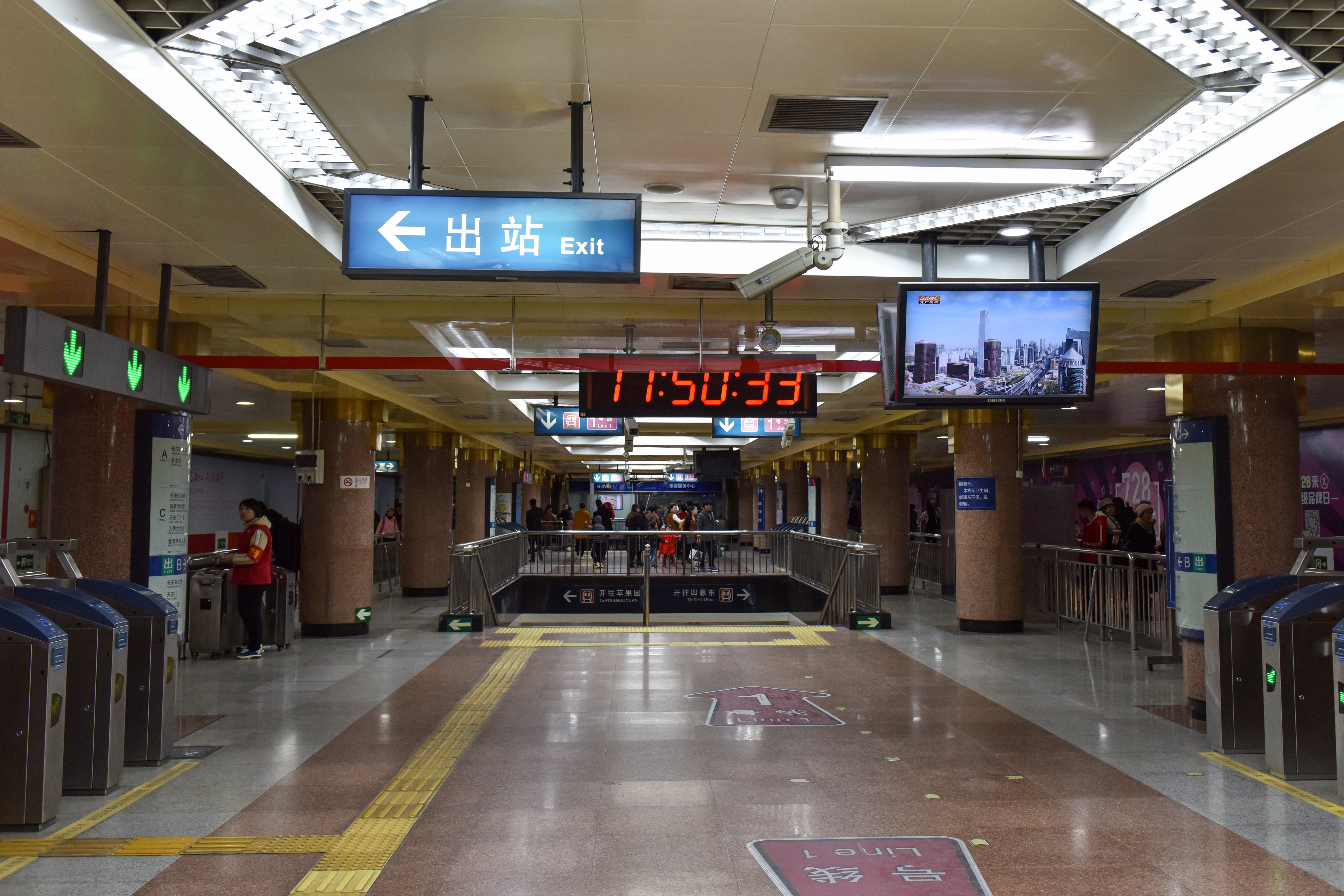 The station was built under the theme of "Oriental Charm".